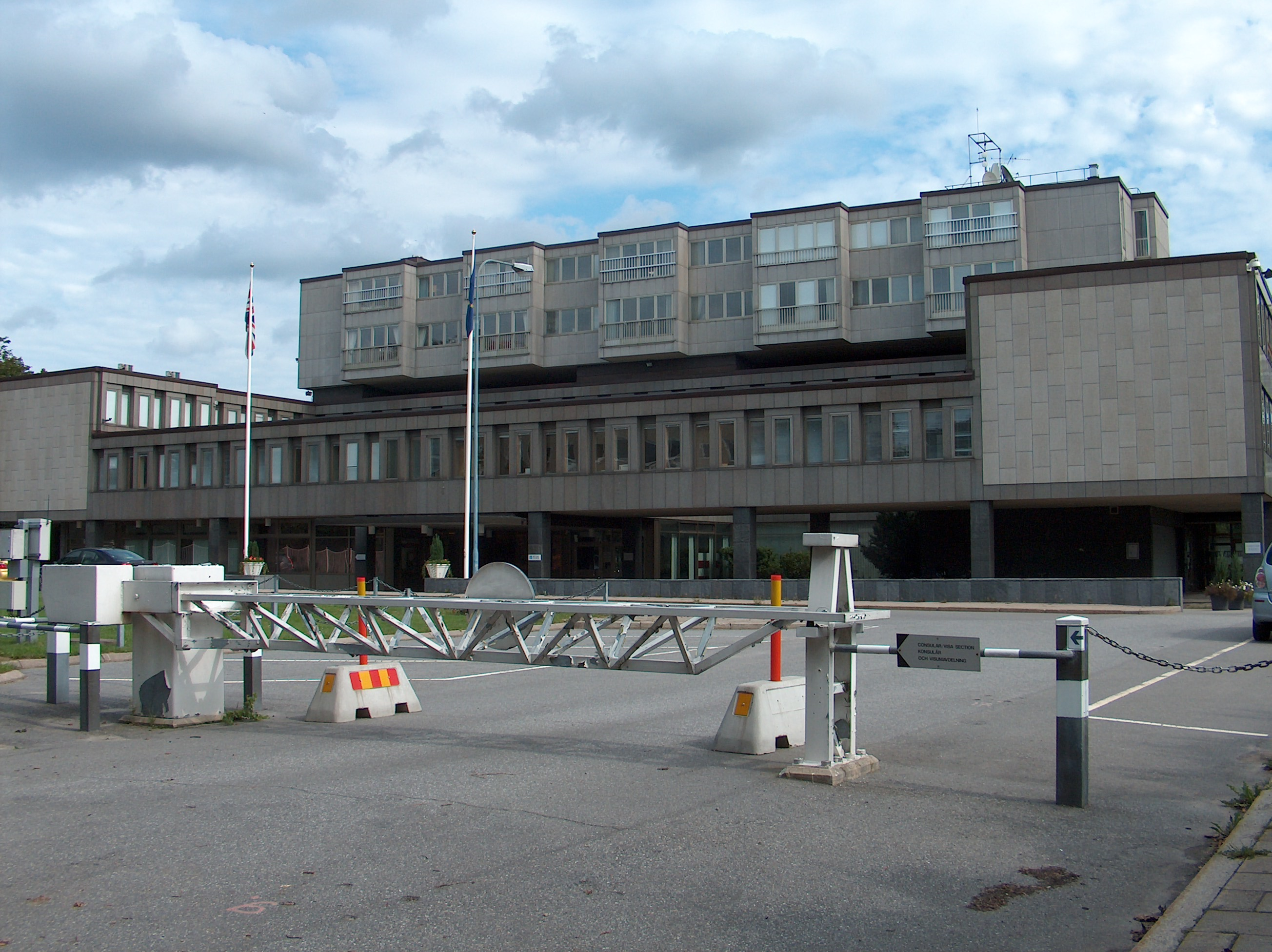 British Embassy in Stockholm, Sweden.